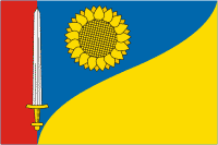 Nikolaevskoe (Krasnodar krai), flag